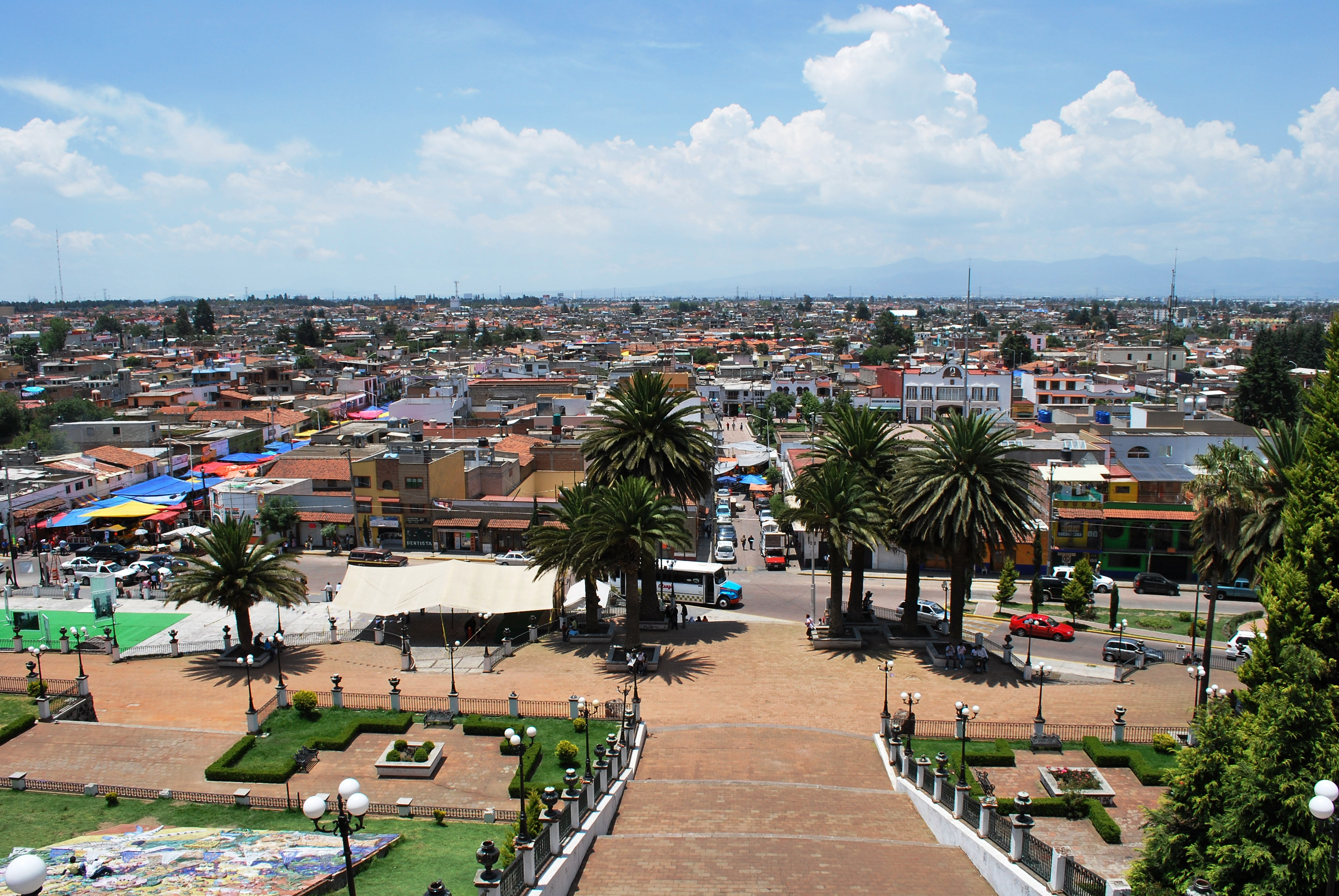 Panoramic of Villa Metepec taken from the Capilla del Calvario in Metepec, Mexico State